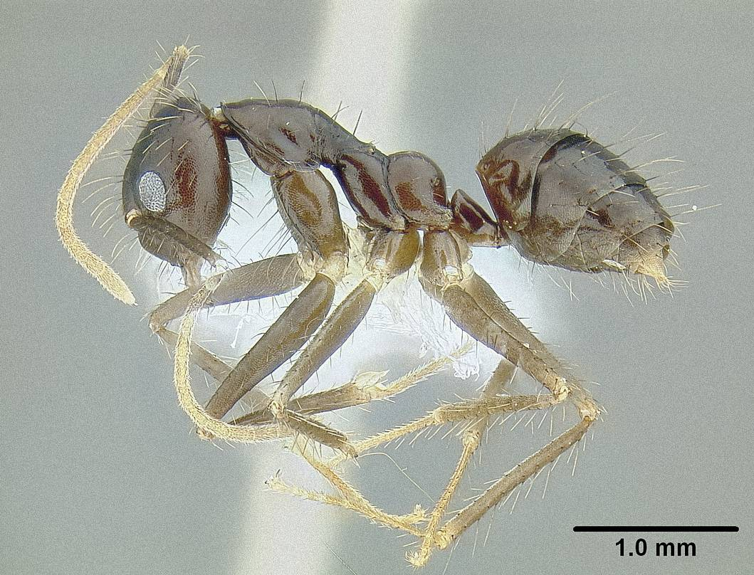 Euprenolepis procera specimen